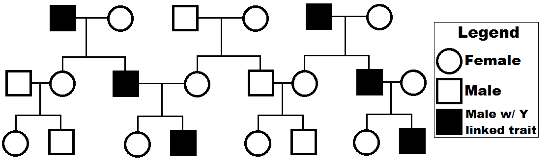 Pedigree tree showing the inheritance of a Y-linked trait.